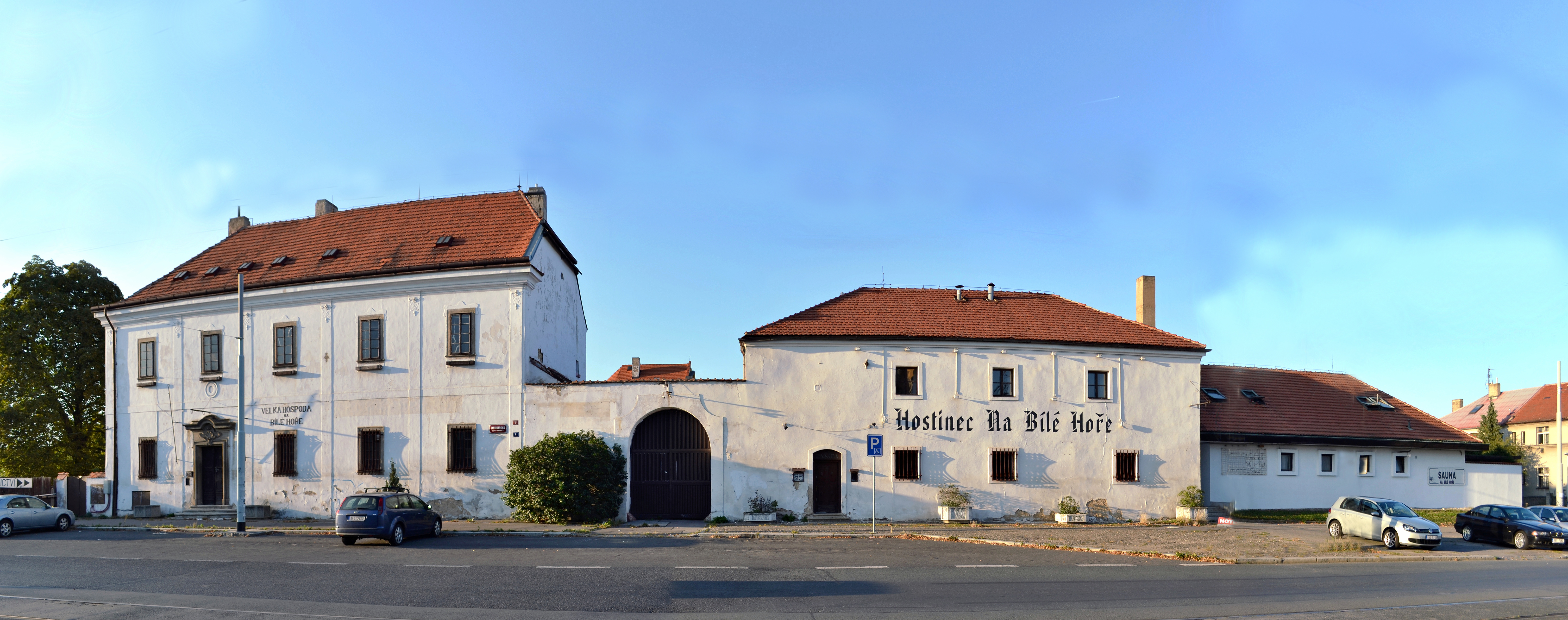 Cultural monument "Velká hospoda s kaplí svatého Martina" ("the Big inn with Saint Martin chapel") at the White Hill. Karlovarská street 1/4, Řepy, Prague 17.